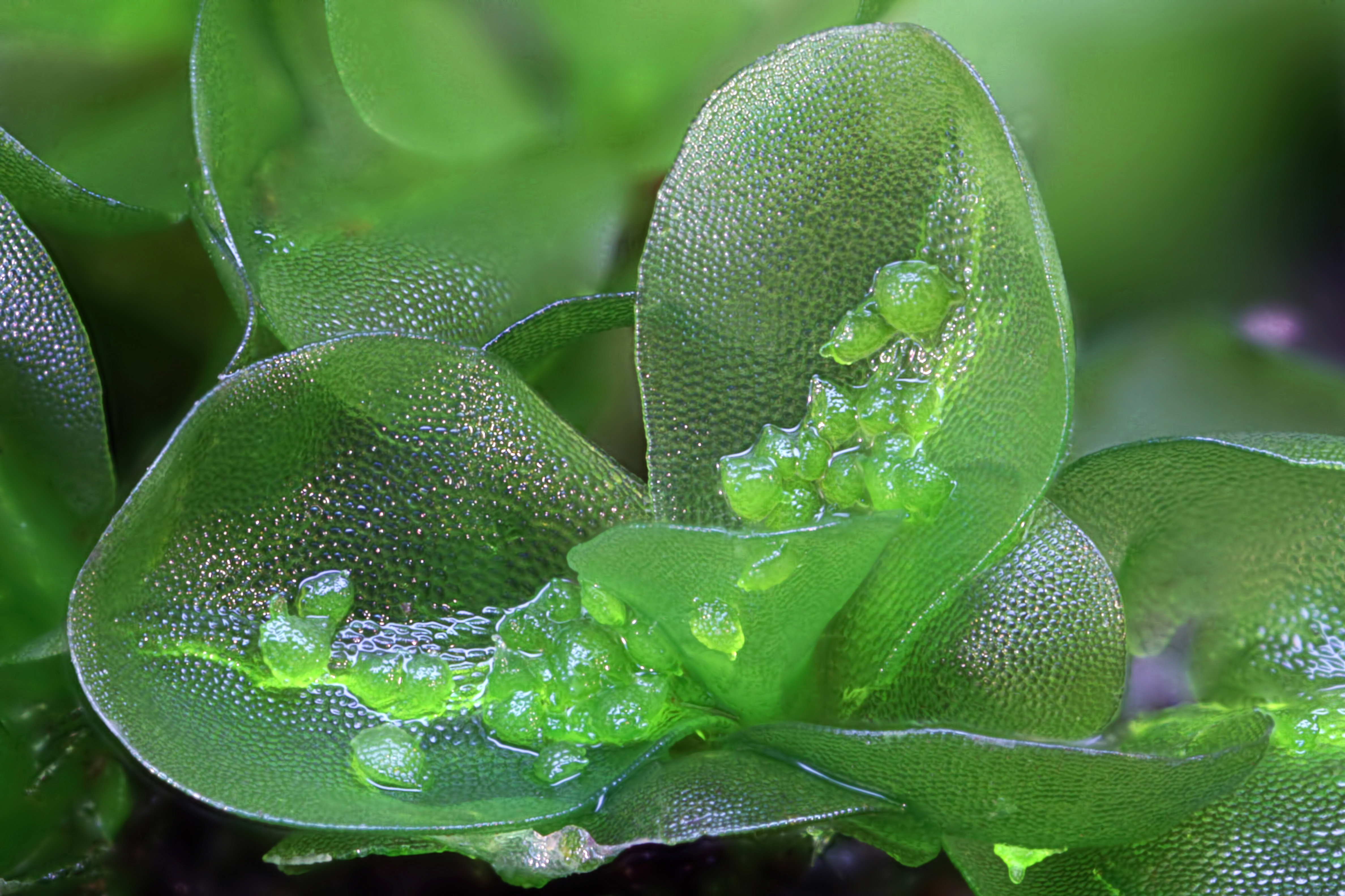 Gametophyte of Oedipodium griffithianum with gemmae